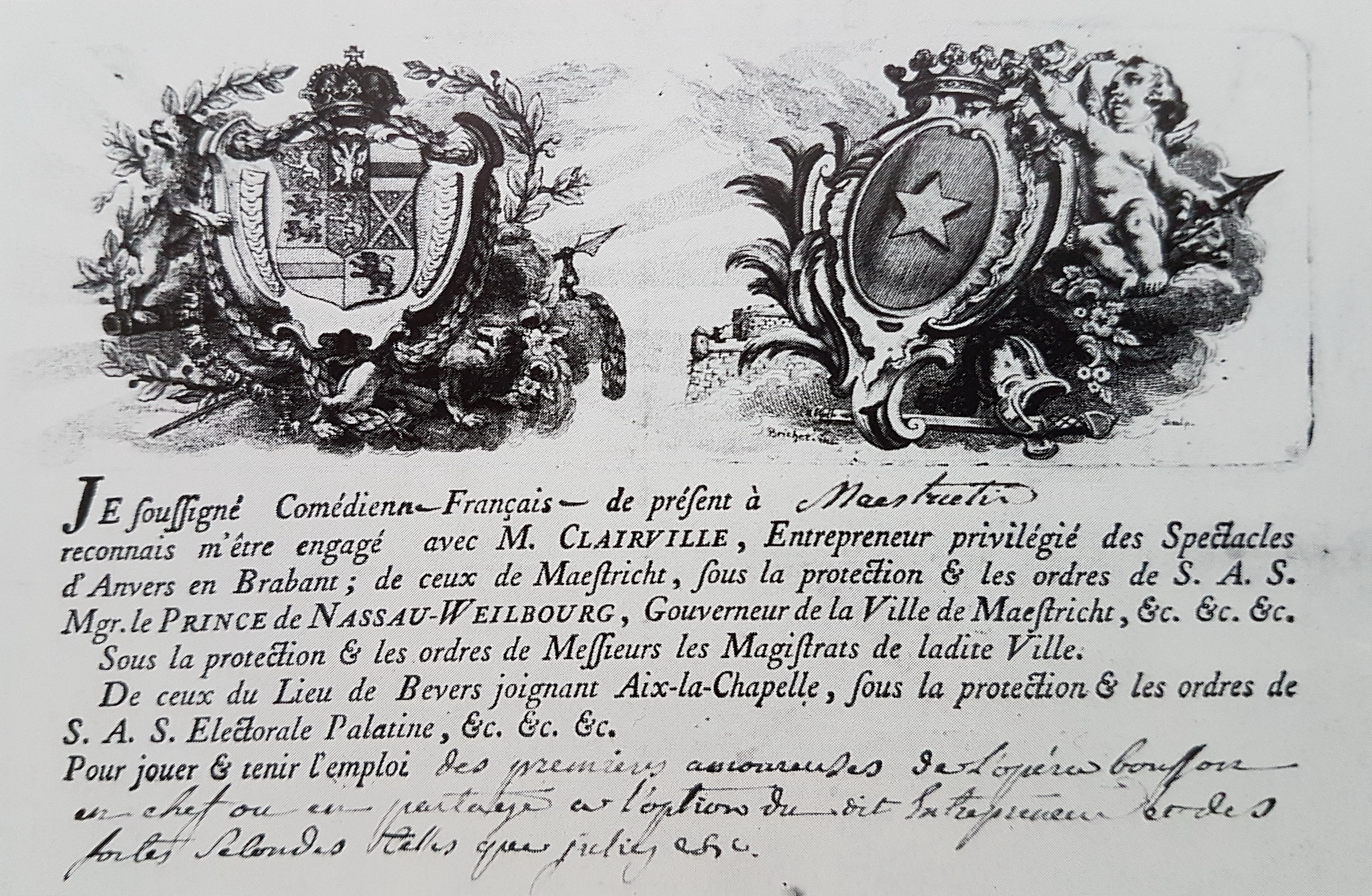 A late 18th-century contract of an actress with Mr Clairville, theatre director in Maastricht. Clairville's first performances in Maastricht took place in 1774; in 1780 he went bankrupt. Top left: coat of arms of Charles Christian, Prince of Nassau-Weilburg, governor of Maastricht. Top right: coat of arms of Maastricht.